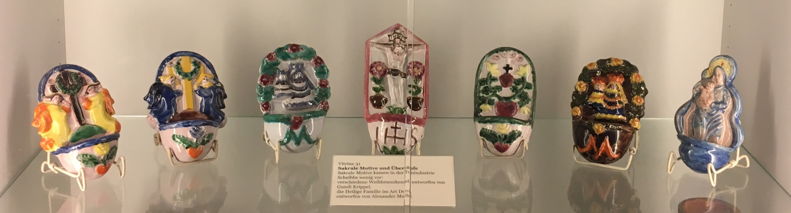 Elisabeth Krippel Weihwasserbehälter